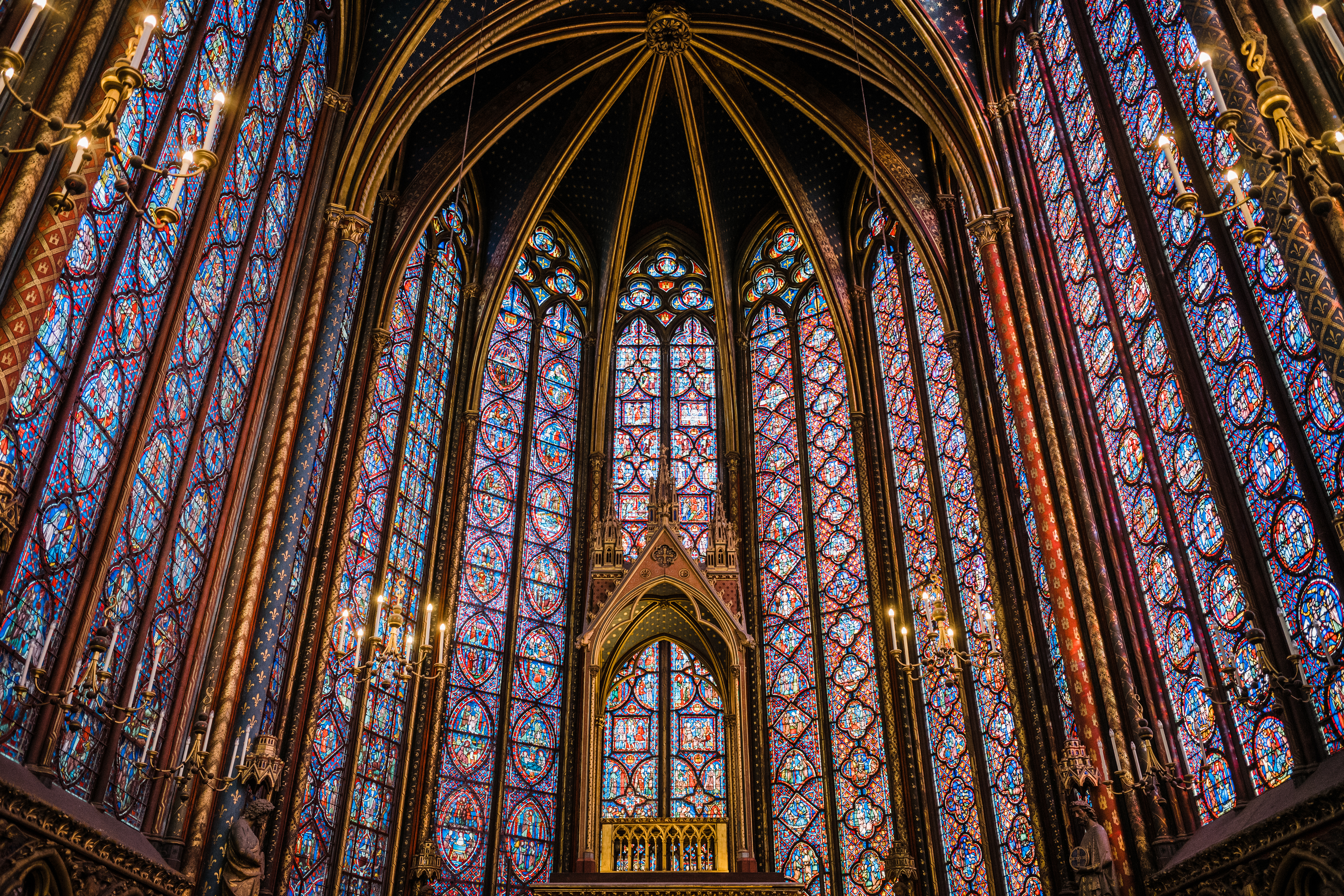 Sainte Chapelle Interior Stained Glass